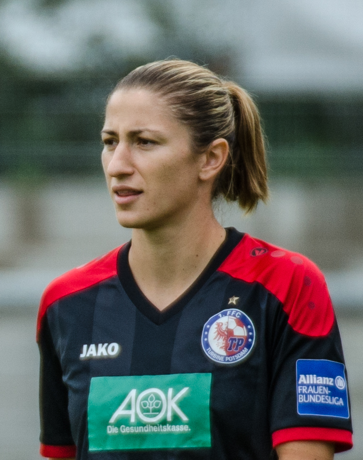 Match of the German Women's Football Bundesliga between 1.FFC Frankfurt and 1. FFC Turbine Potsdam, 2015-09-13